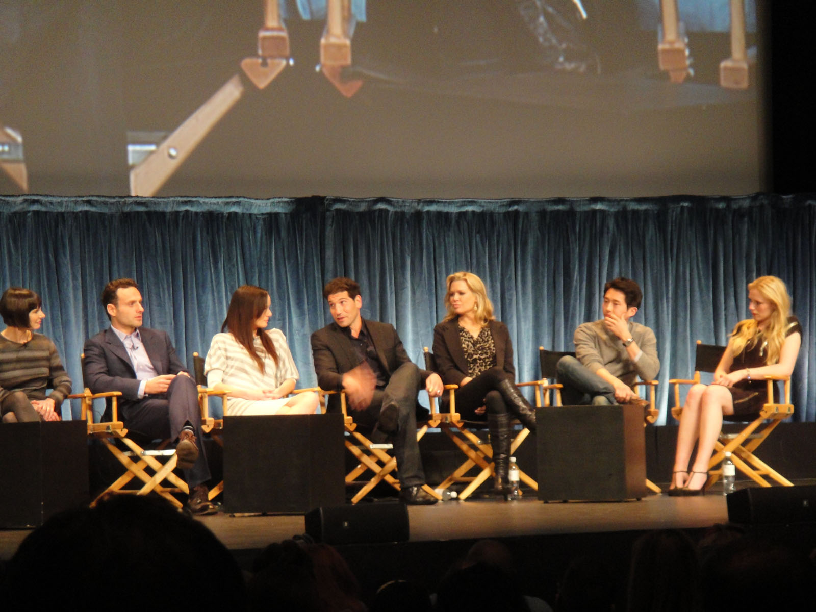 photo © 2011 taken by Doug Kline If you're interested in higher resolution versions of my images, contact me via my profile page.